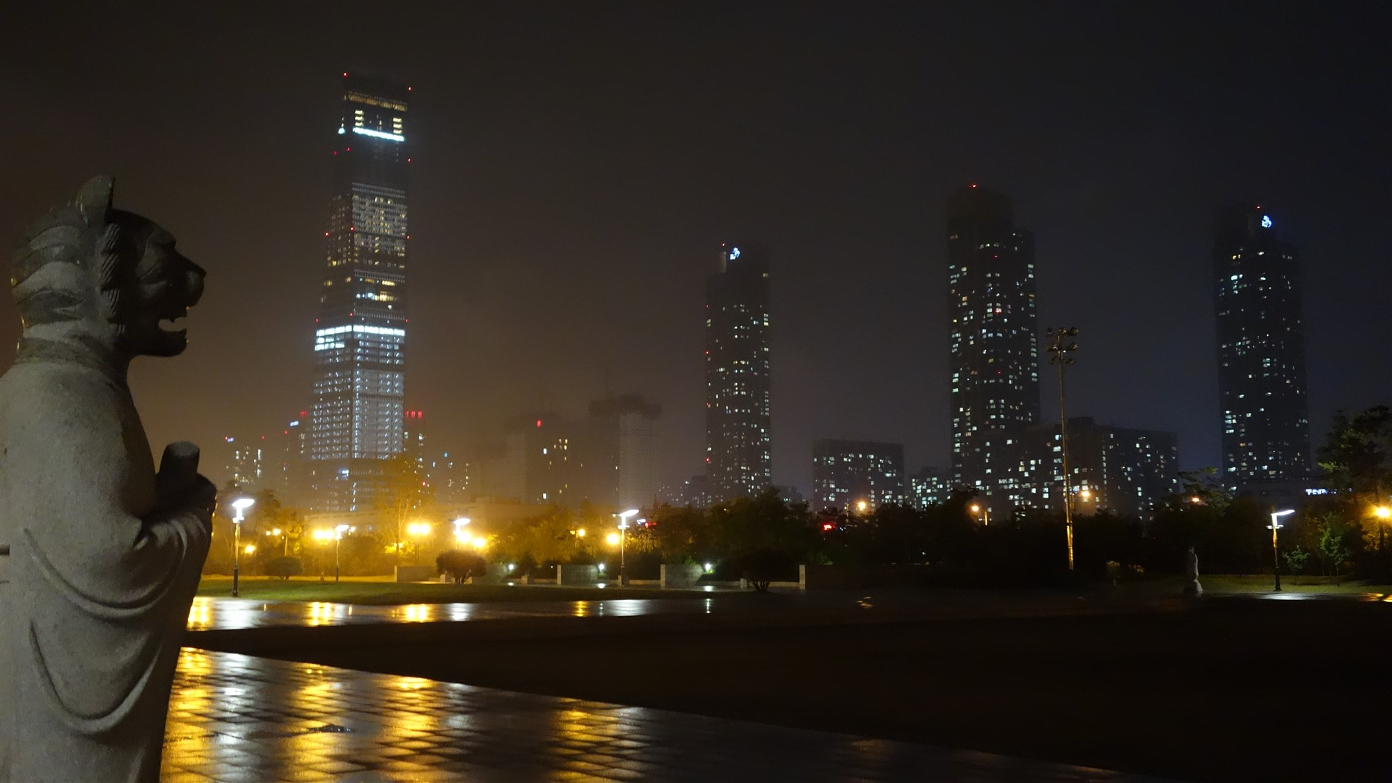 Convensia at Night from Michihol Park, Songdo IBD, Incheon, Korea